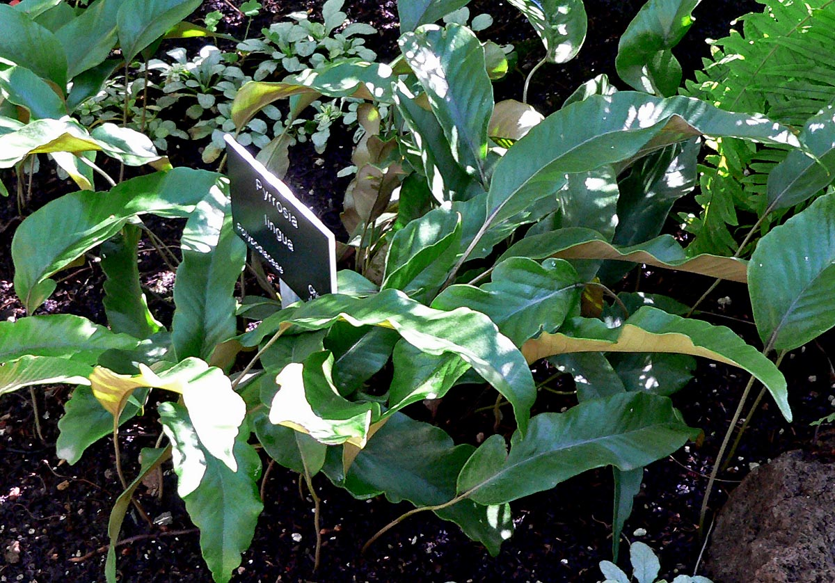 Photo of Pyrrosia lingua at Balboa Park